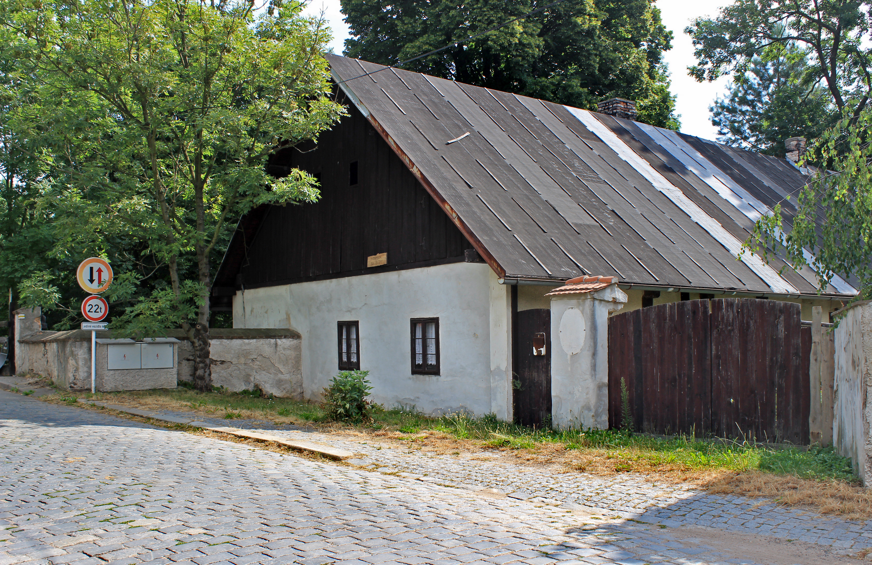 Old restaurant in Bašta, part of Starý Kolín, Czech Republic.